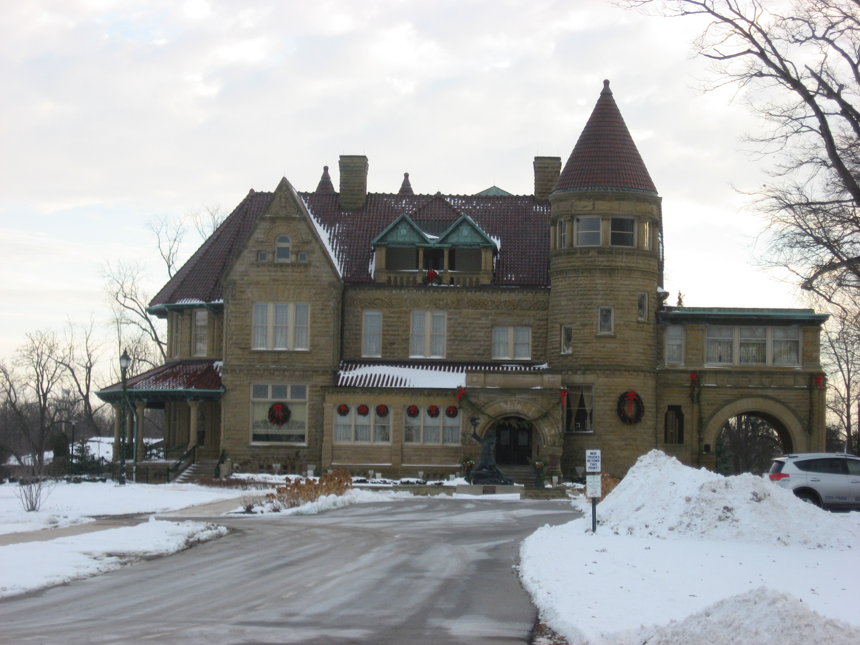 Front of the John H. Bass Mansion, located at 2701 W. Spring Street on the University of Saint Francis campus in Fort Wayne, Indiana, United States. Built in 1902 and since converted into the university library, it is listed on the National Register of Historic Places.